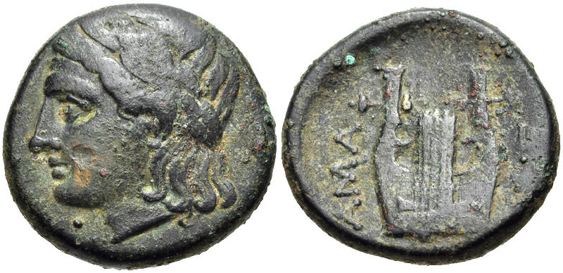 Hamaxitos. 4th century bronze, (5.47 g, 8h). Laureate head of Apollo left / Lyre.